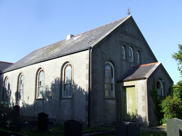 Derelict Chapel at Capel Gwyn. A Chapel that was built in 1905, now lies derelict in Capel Gwyn